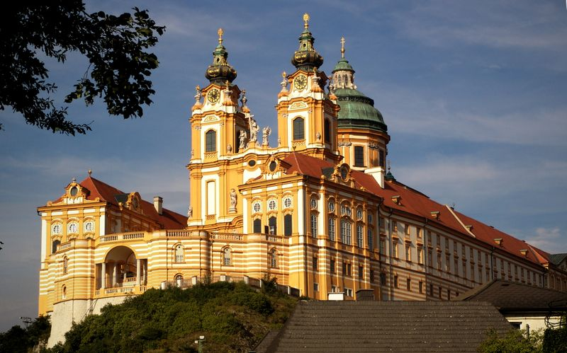 Photo W. Hochauer, Stift Melk, Lower Austria, This photo is from Abbey Melk, April 2005 from Walter Hochauer [1]